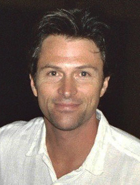 Tim Daly at the rehearsal for the 1995 Emmy Awards.